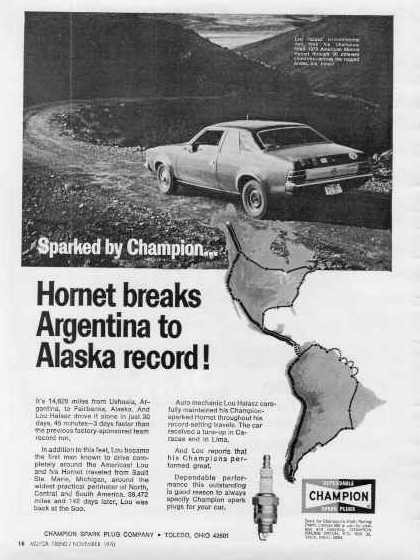 A 1970 magazine advertisement for Champion spark plugs. Promotes the use of its product in a new Trans-Americas endurance record (driving from Ushuaia, Argentina to Fairbanks, Alaska). The car was an 1970 American Motors Corporation (AMC) Hornet two-door sedan and came from the factory with this brand of spark plugs.